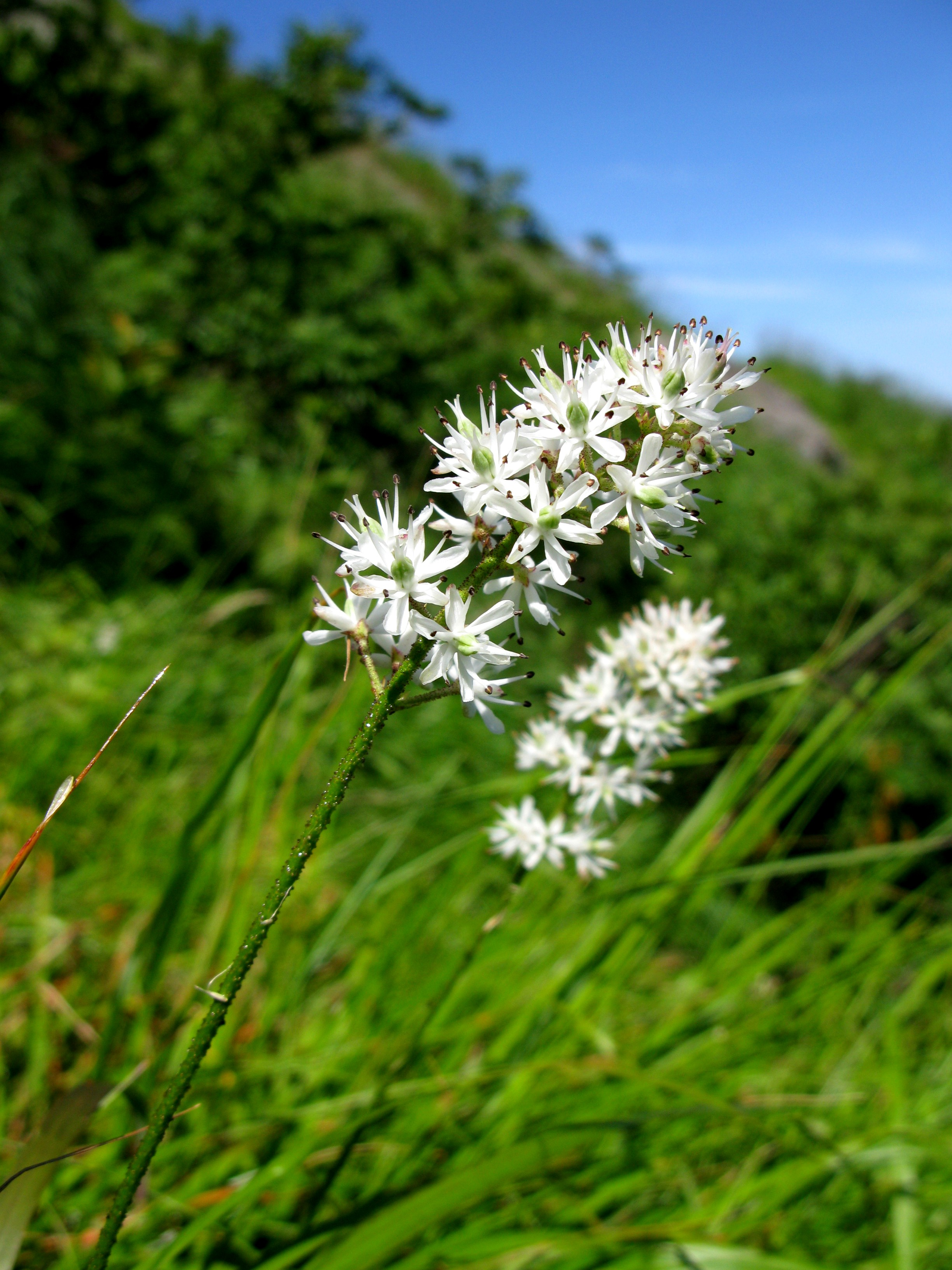 Tofieldia glutinosa subsp. japonica,Aizu area,Fukushima pref.,Japan